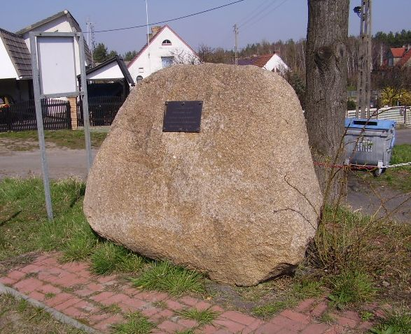 Grüneberg meteorite landmark. Wilkanowko meteorite is a synonym for Grüneberg meteorite.